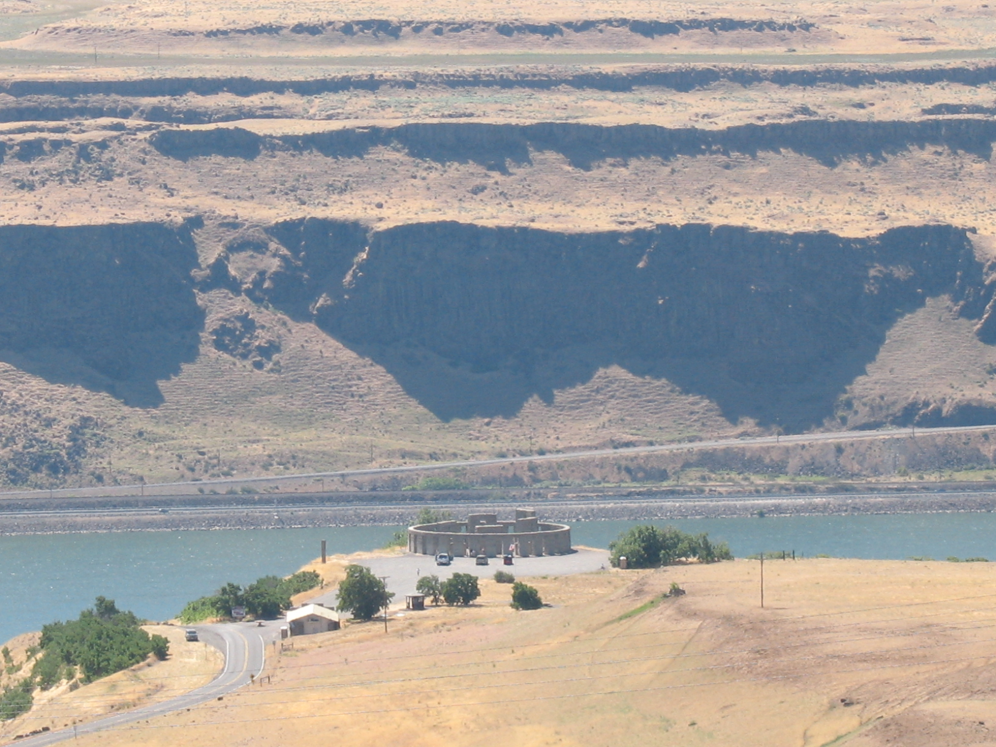 Stonehenge on the Columbia River, Klickitat County, Washington